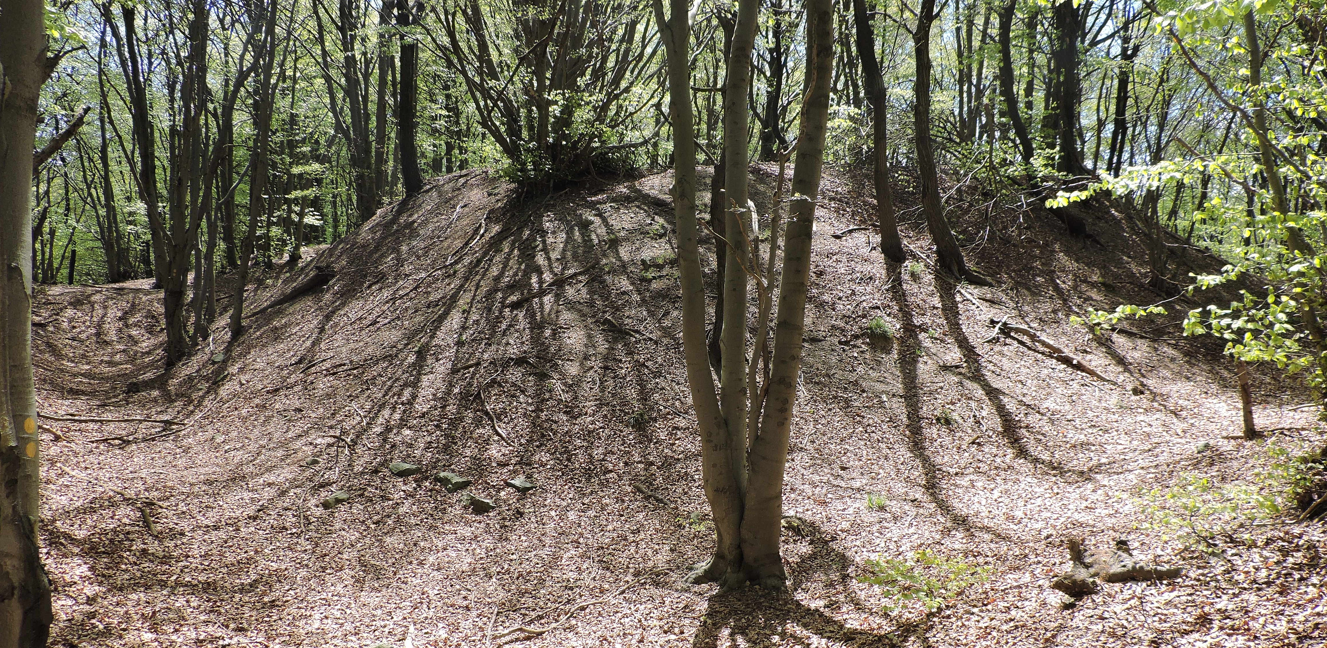 Bric del Tesoro (SV, Italy)ː old Austrian trenches